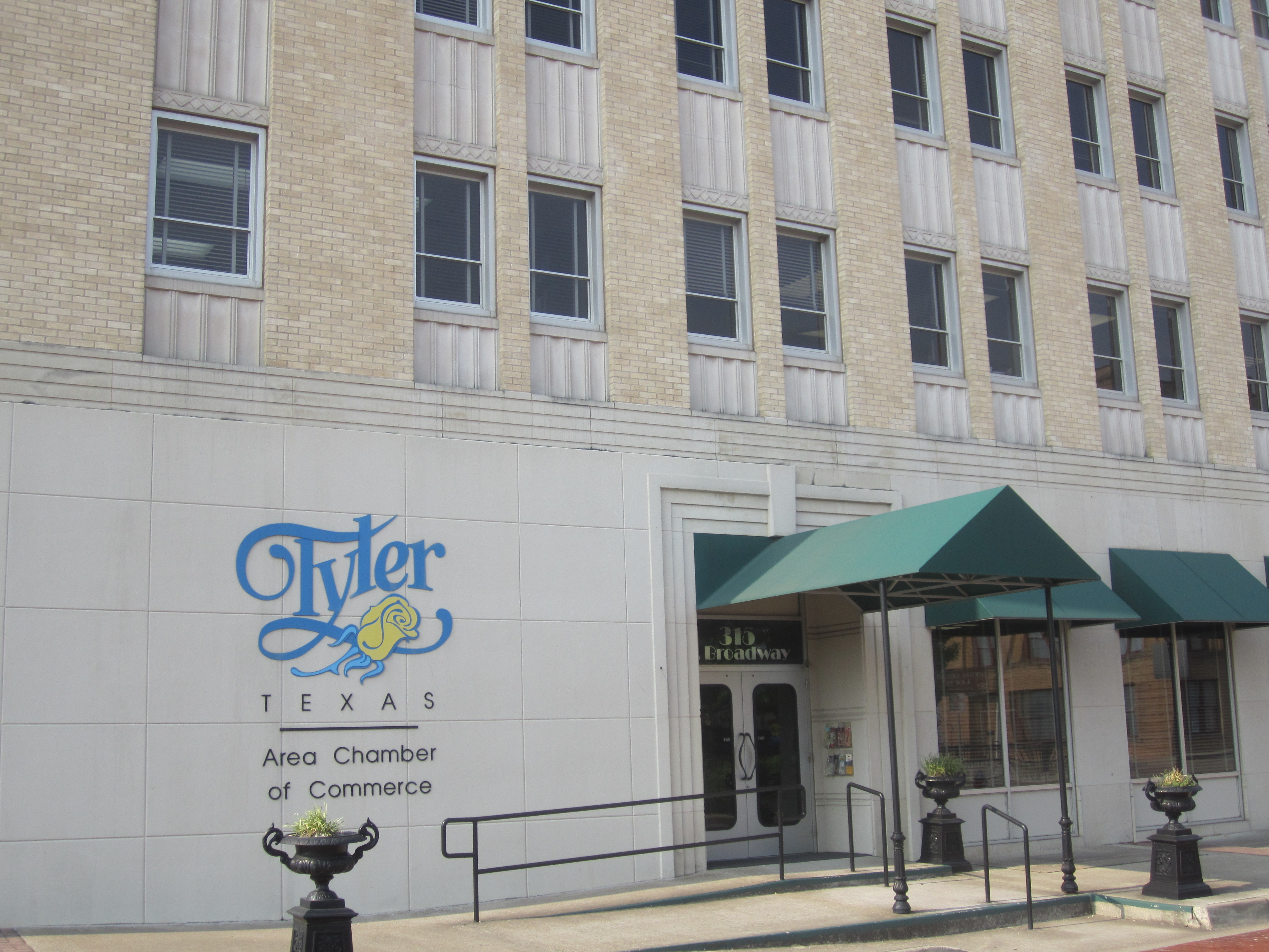 I took photo with Canon camera in Tyler, TX.